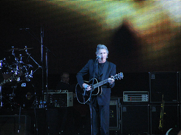 Roger Waters performing in Chicago Illinois 29 September 2006.